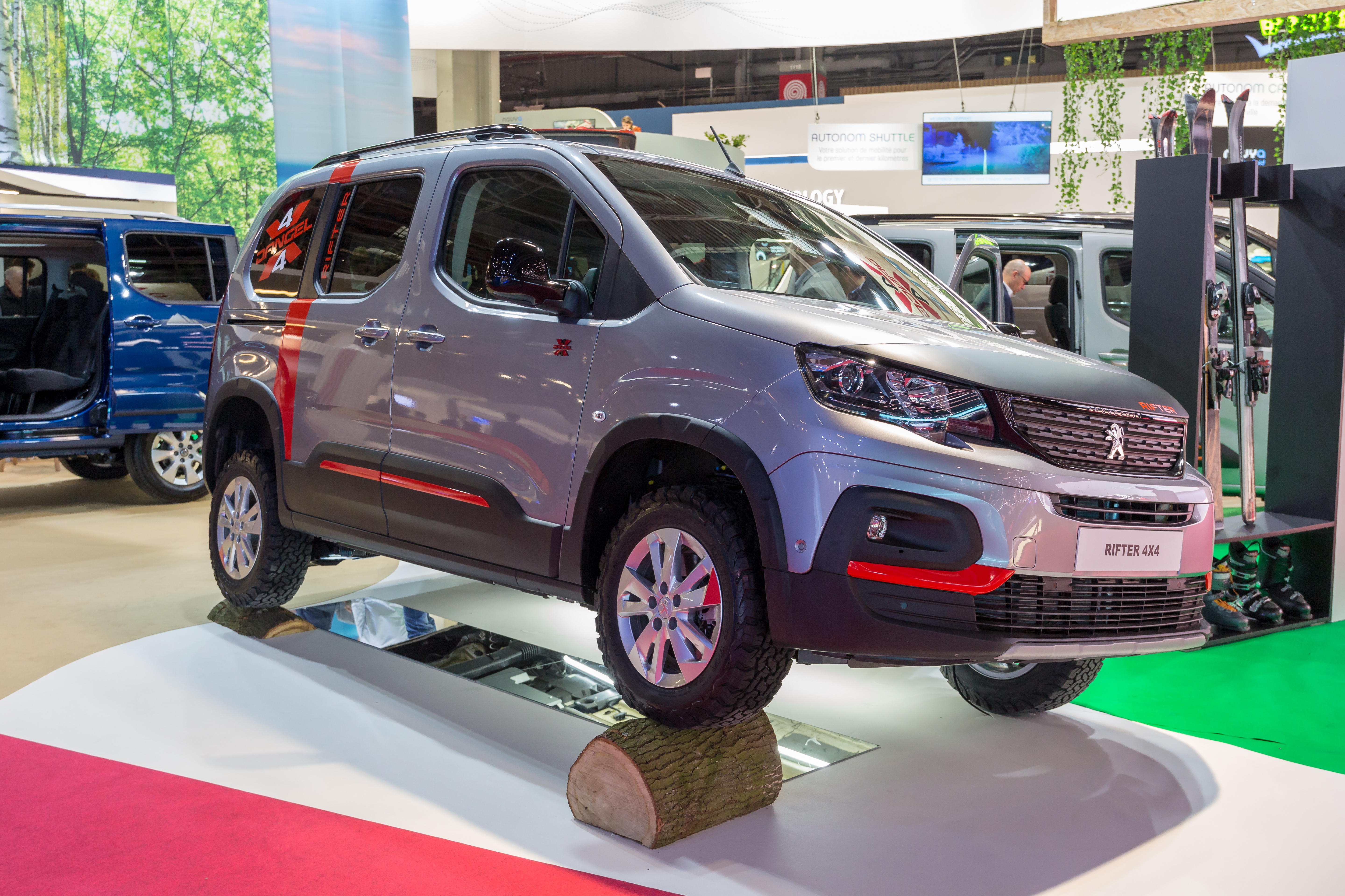 Peugeot Dangel Rifter 4x4 at Paris Motor Show 2018